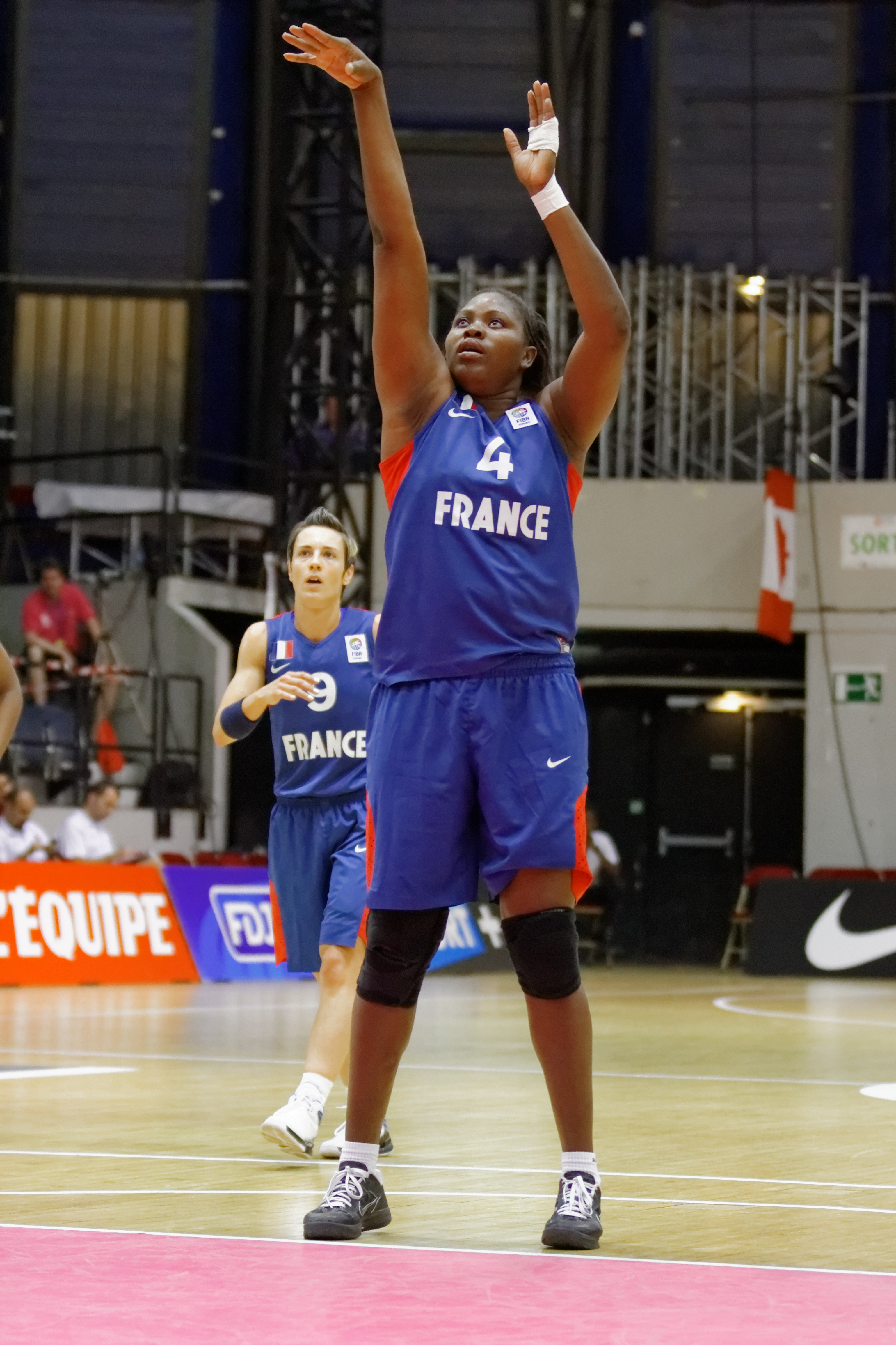 EuroEssonne, France - Canada, 7 June 2013.